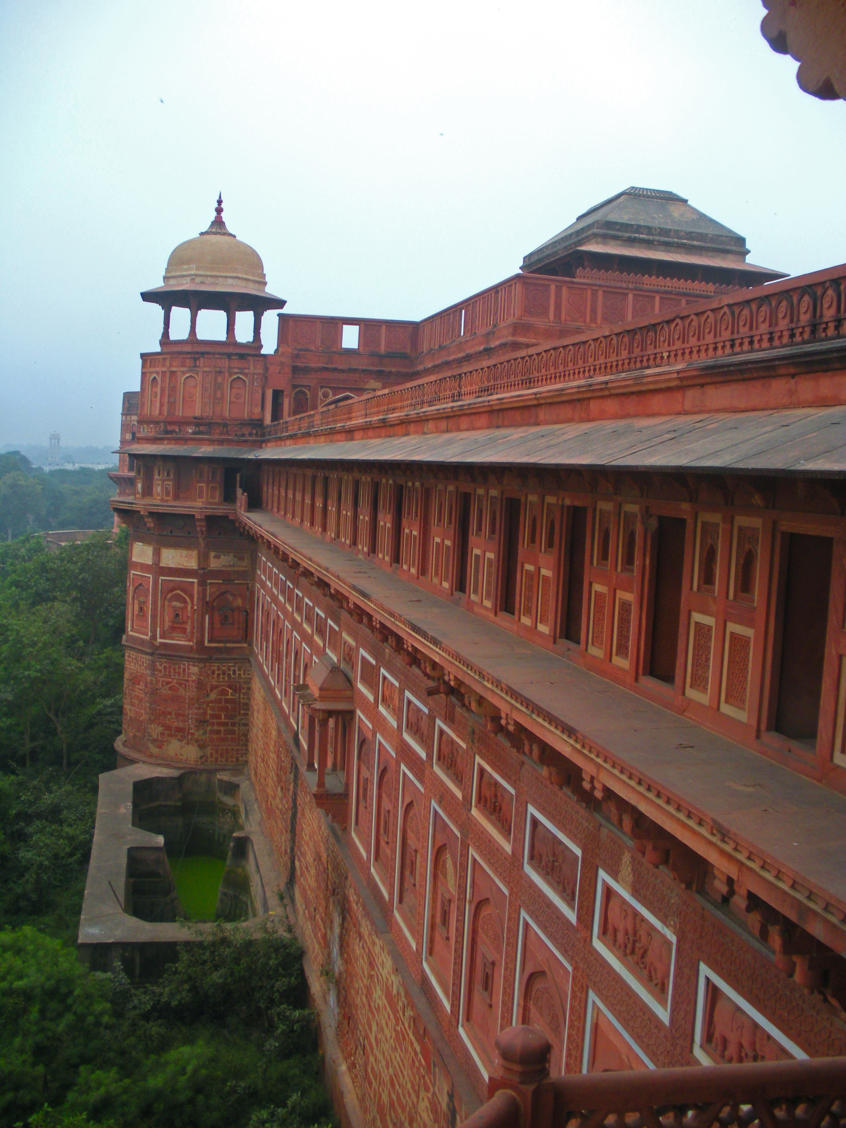 Magnificent outer view of the Agra Fort.